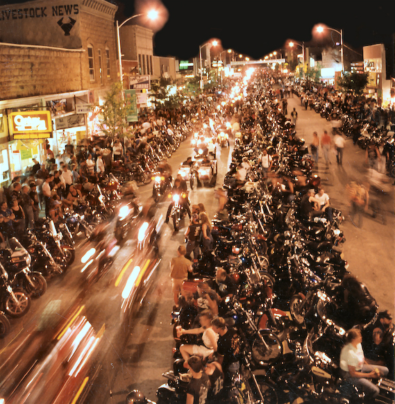 2008 Sturgis Motorcycle Rally, street at night